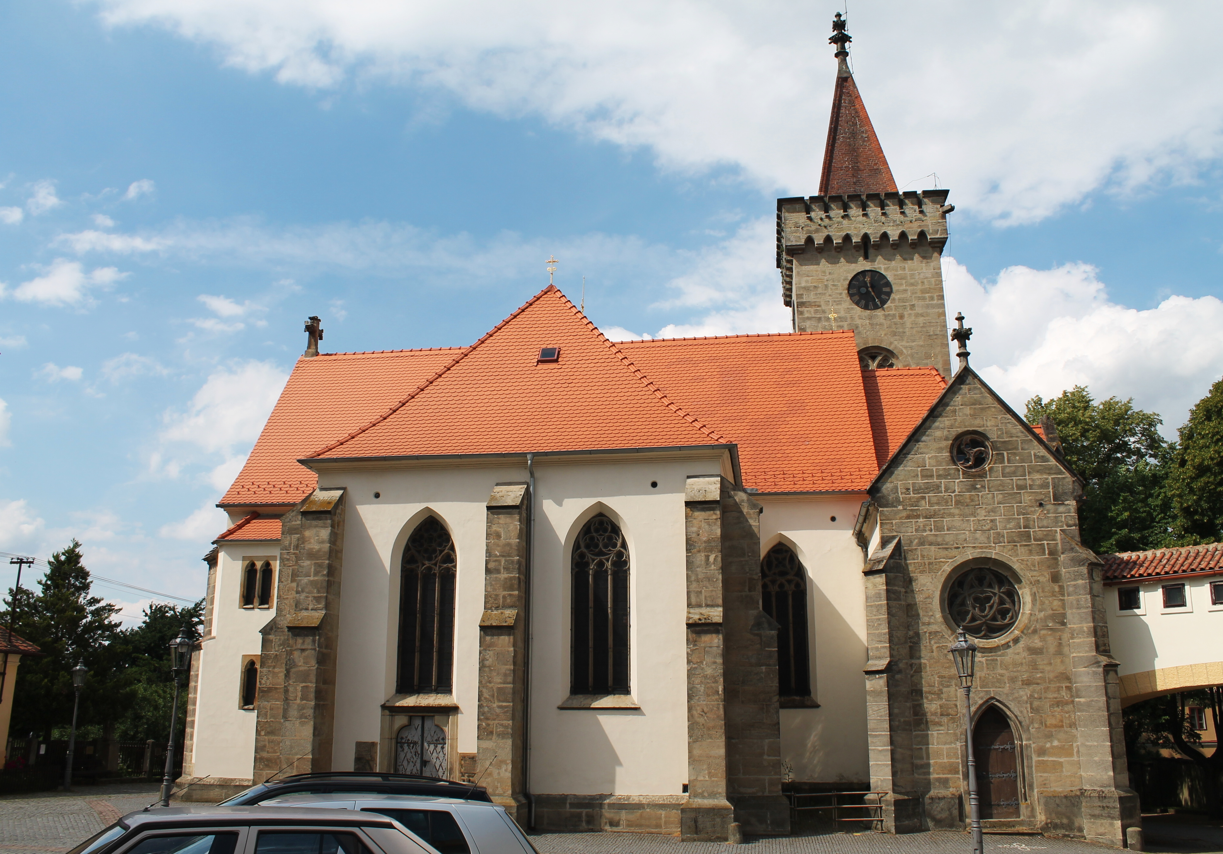 Church of Saint Martin, Slatiňany, Chrudim District, Czech Republic